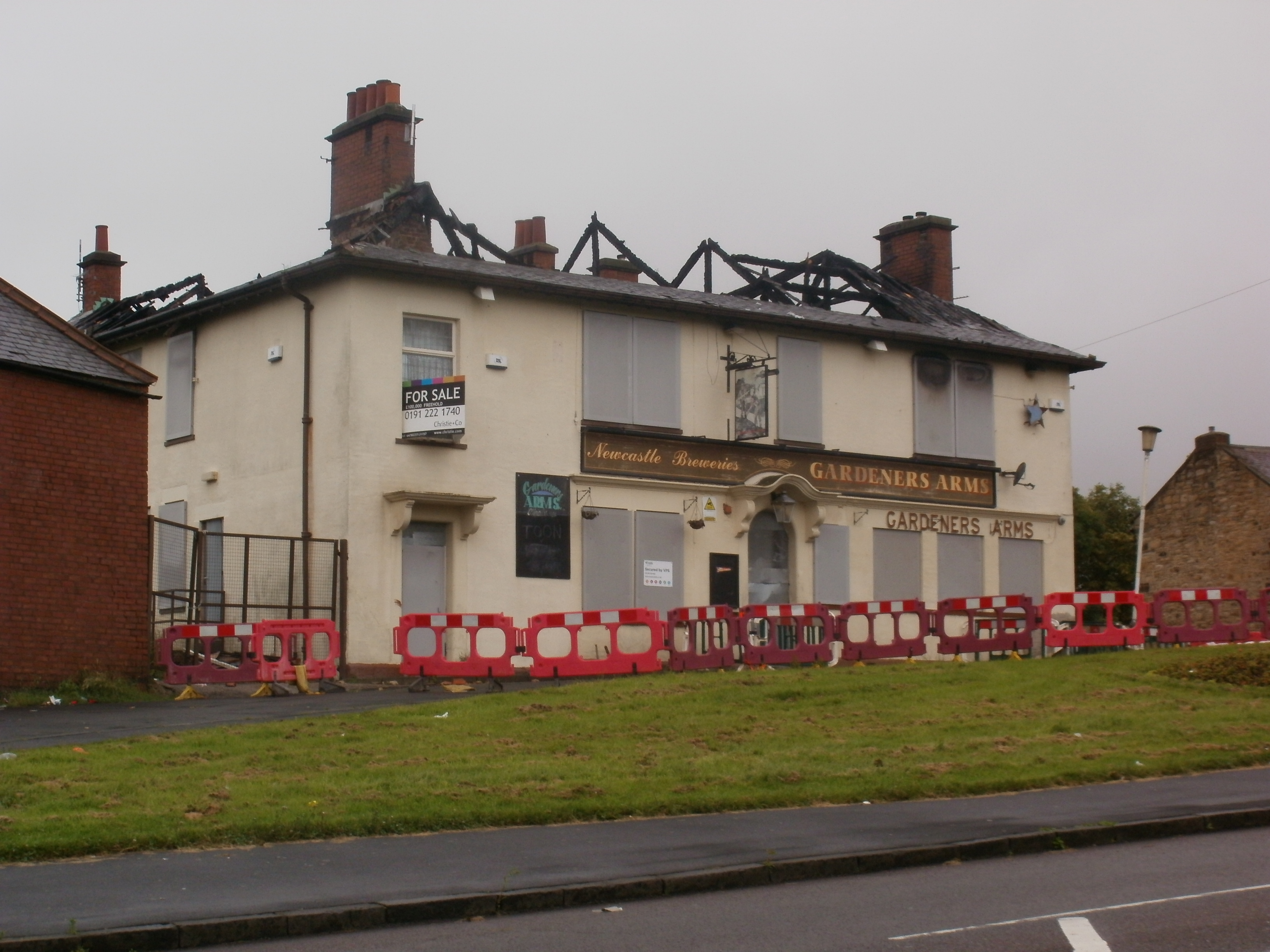 The Gardners Arms in Carr Hill is a sorry state, having been gutted by fire on 1 July 2012